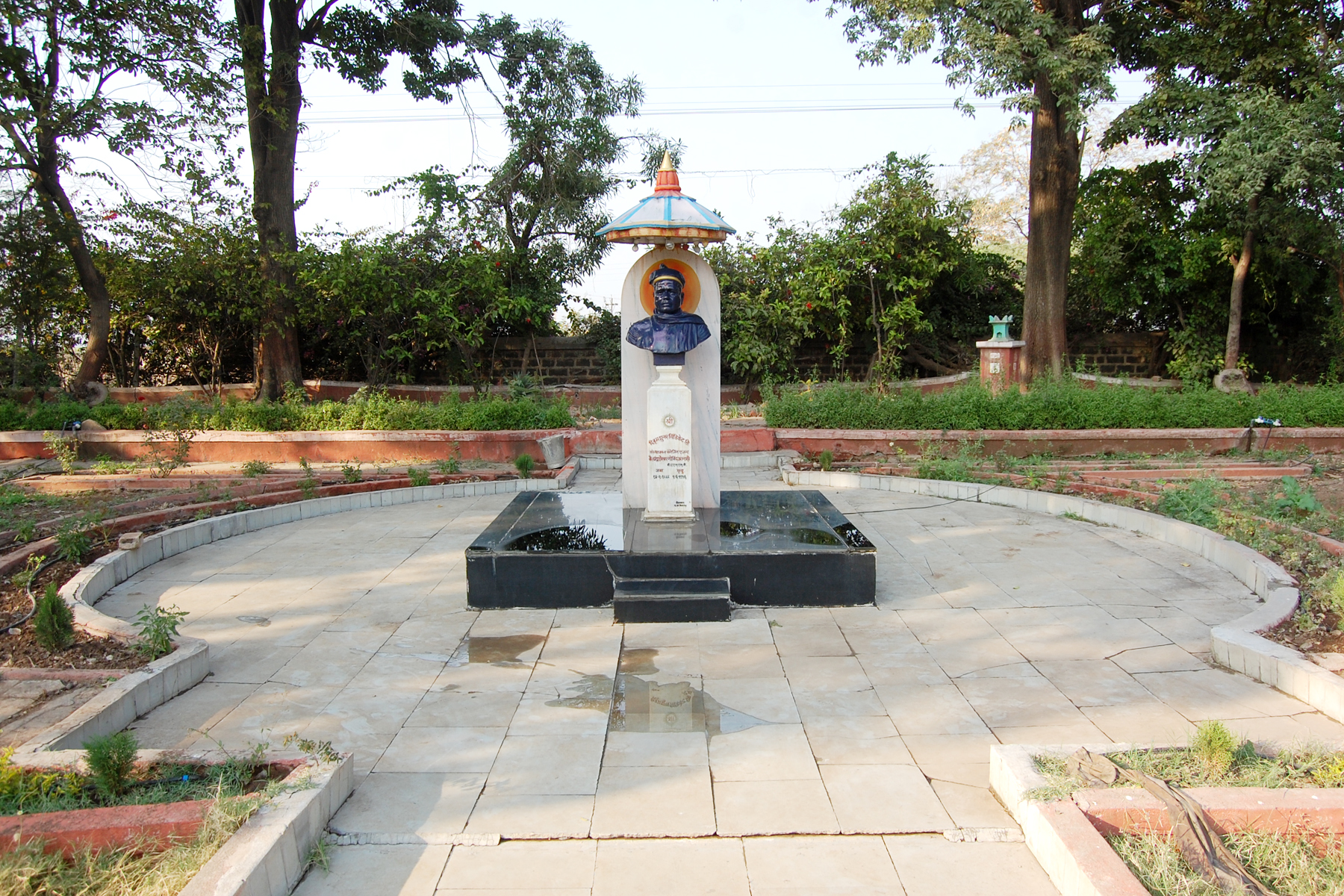 Memorial bust of Chandrashekhar Agashe, as designed by P. V. Kelkar, on the Agashe Estate outside Shreepur.